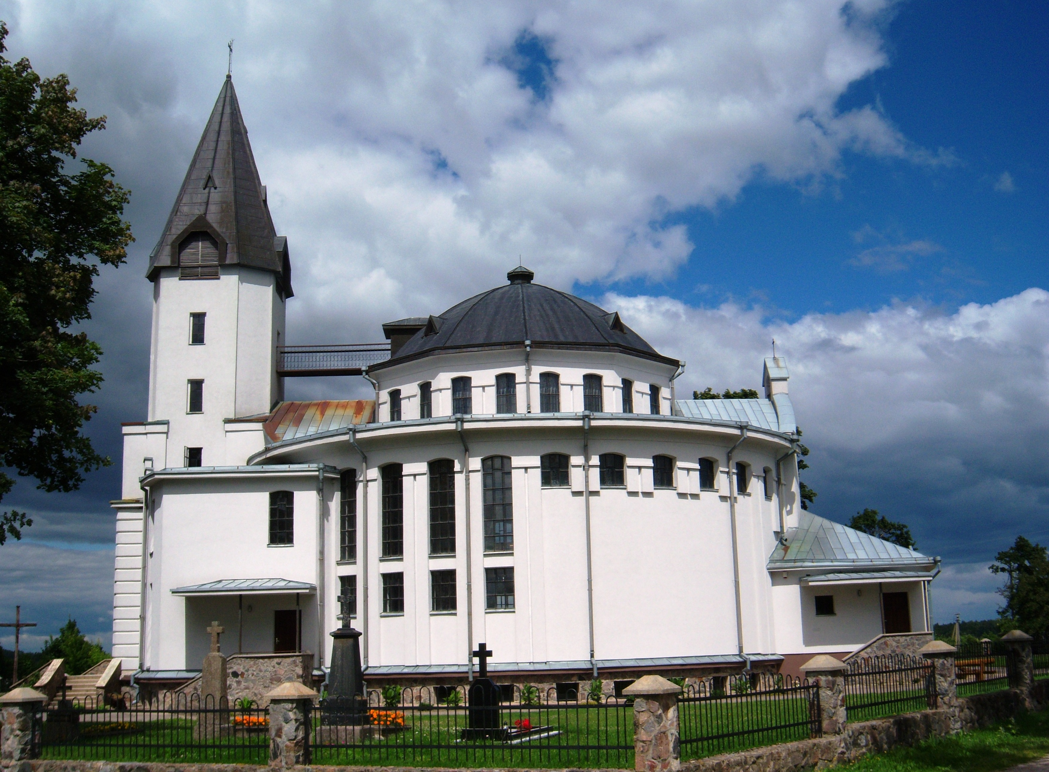 Girkalnis church, Raseiniai District. Lithuania